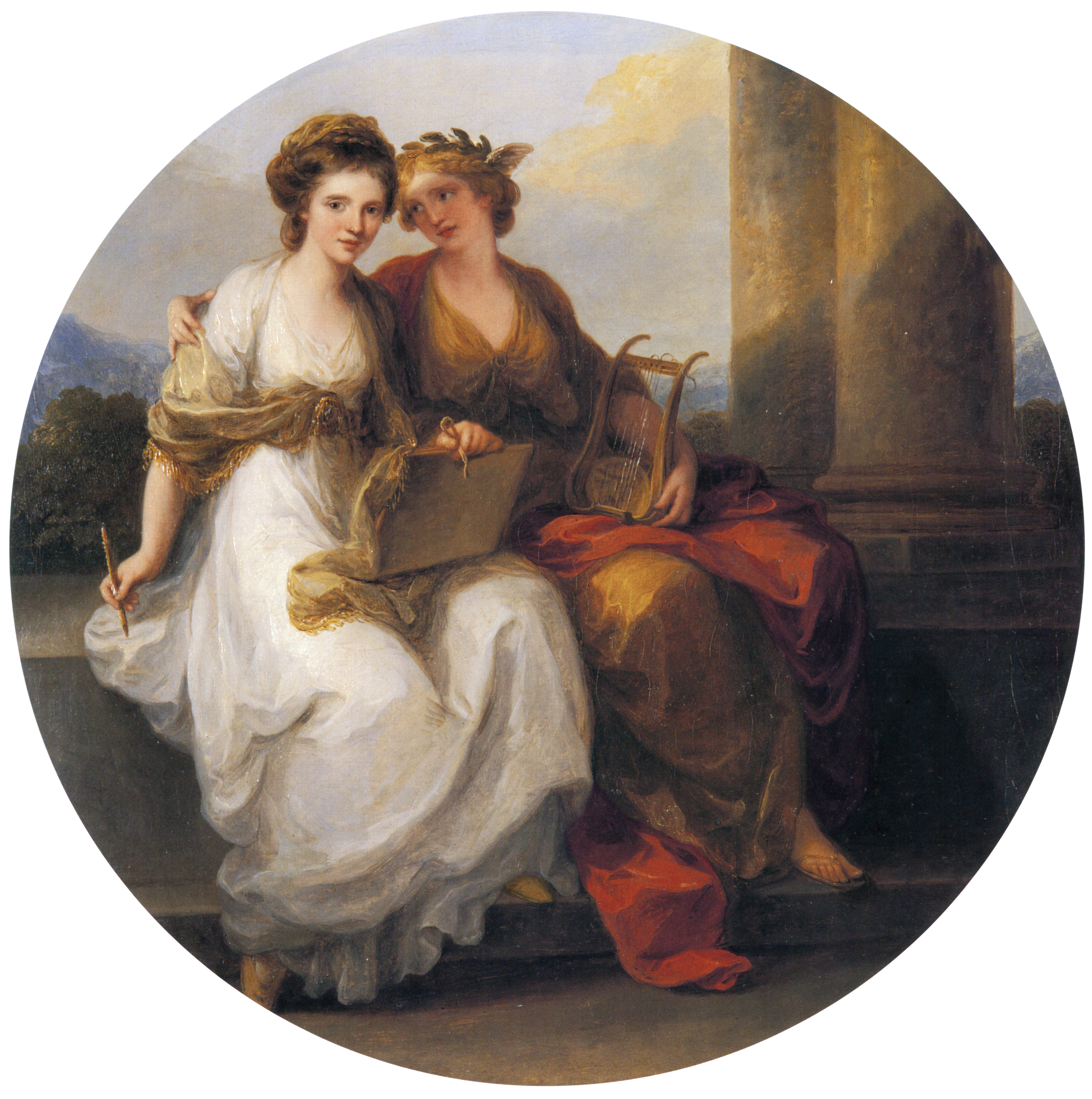 The Artist in the Character of Design Listening to the Inspiration of Poetry. Inscribed (top): For George Bowles Esq. English Heritage, Kenwood. (The Ernest Edward Cook Bequest Presented by the National Art-Collections Fund). London only.